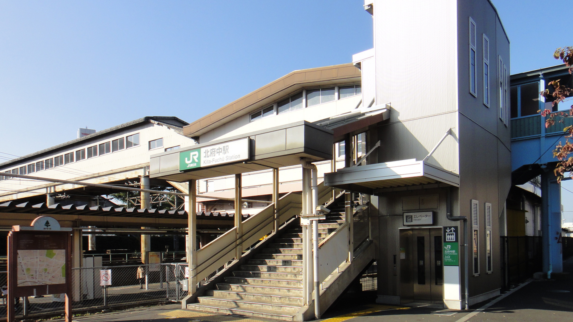 The main station entrance of Kita-Fuchu Station on the Musashino Line in Tokyo, Japan